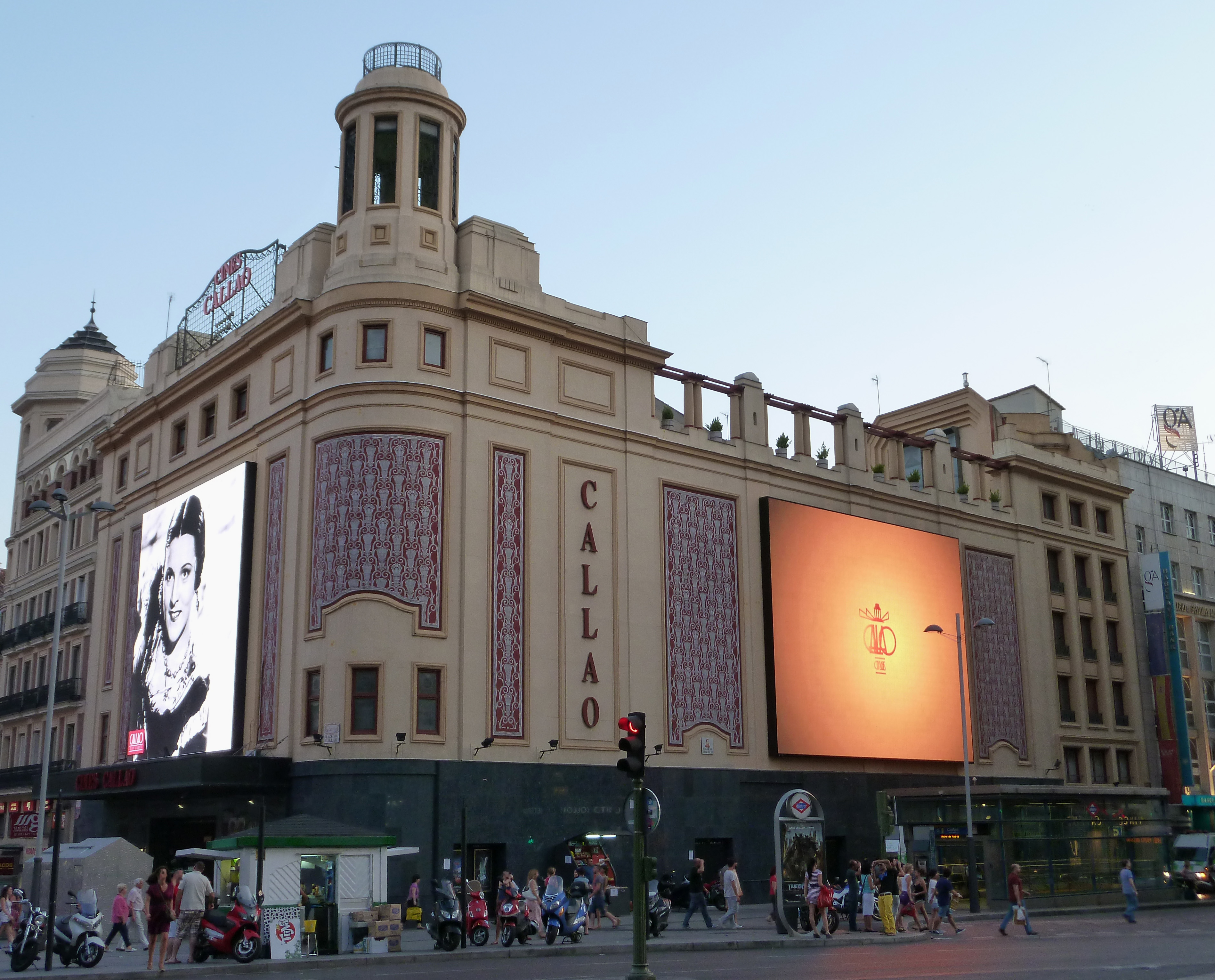 View of Cine Callao (a cinema) in Madrid (Spain).